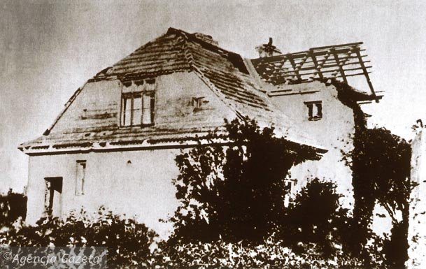 Podgorskis' villa in 1945